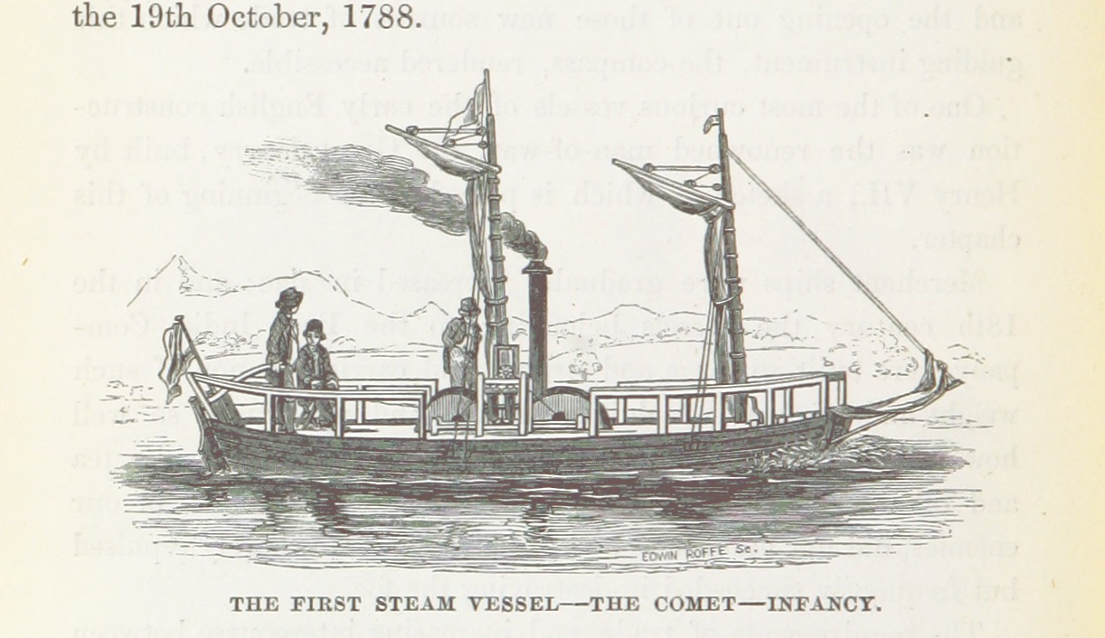 Image taken from: Title: "My first voyage. A book for youth. Illustrated by E. Roffe" Author: STONES, William - Author of “My First Voyage.” Contributor: ROFFE, Edwin. Shelfmark: "British Library HMNTS 12808.b.37.", "British Library HMNTS 10026.c.19." Page: 130 Place of Publishing: London Date of Publishing: 1858 Issuance: monographic Identifier: 003514983 Explore: Find this item in the British Library catalogue, 'Explore'. Open the page in the British Library's itemViewer (page image 130) Download the PDF for this book Image found on book scan 130 (NB not a pagenumber)Download the OCR-derived text for this volume: (plain text) or (json) Click here to see all the illustrations in this book and click here to browse other illustrations published in books in the same year. Order a higher quality version from here.